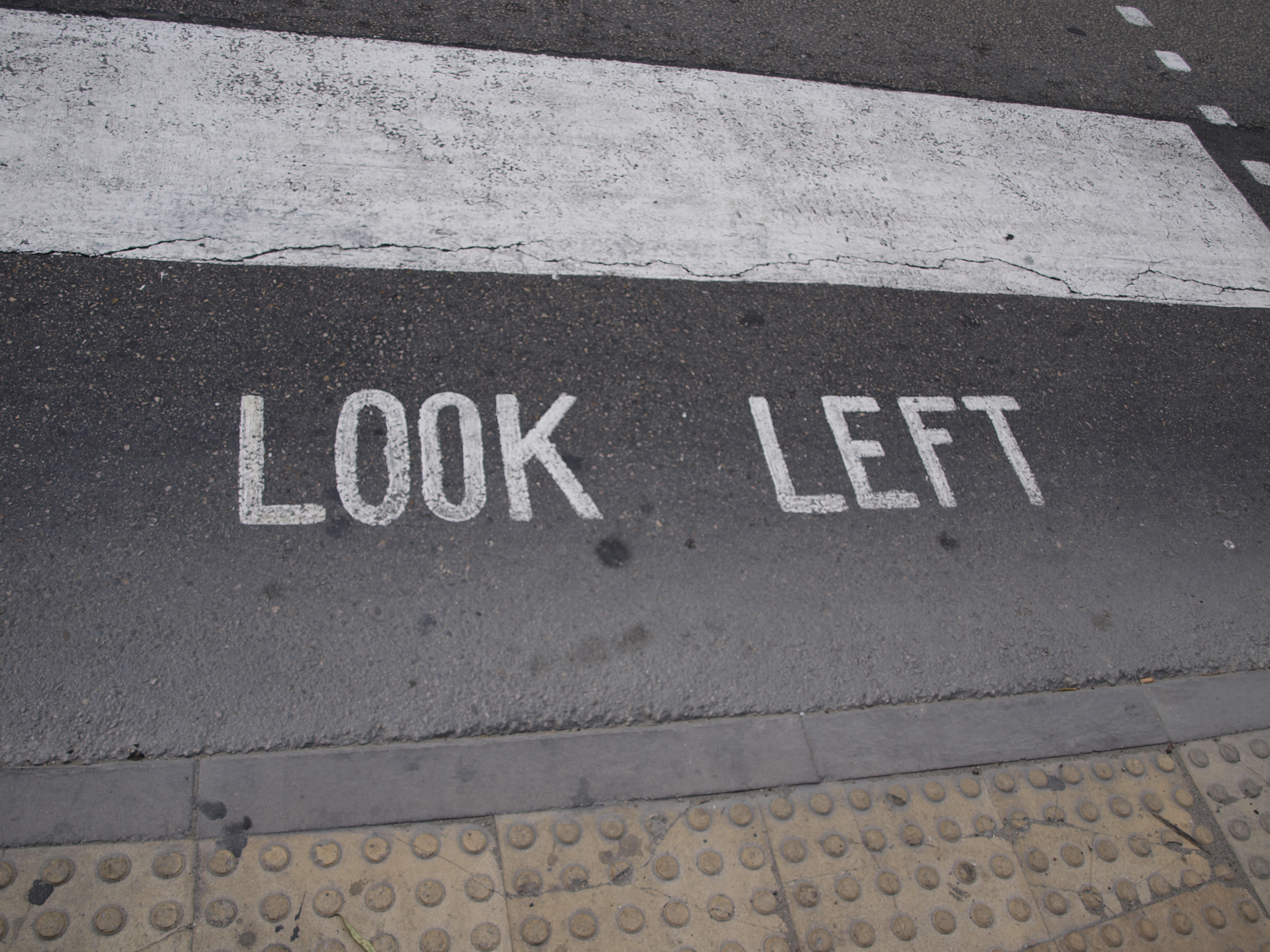 "Look Left" on a pedestrian crossing, Gibraltar